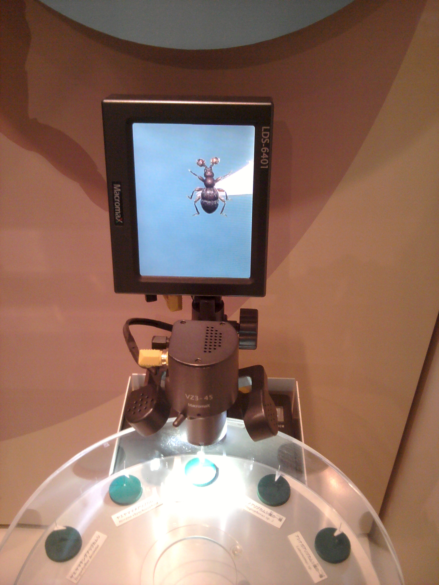 Global Gallery